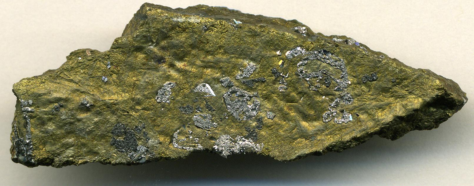 Sperrylite (silver-colored) in platinum-copper ore (field of view 5.7 cm across) with chalcopyrite (brassy gold) & magnetite (black). Geology & Age: massive Fe-Cu sulfide hosted in gabbrodolerite, lower series of differentiated layered igneous intrusion associated with hotspot-generated Siberian Traps Flood Basalts, Permian-Triassic boundary time, 251 my. Locality: apparently from the Oktyabersky Mine, ~12 km NW of Talnakh, Norilsk Mining District, Putoran Plateau, Krasnoyarsk Territory, northern Siberia, Russia. Sperrylite is a very rare platinum arsenide mineral (PtAs2). Very few localities on Earth have been reported to have sperrylite. The two classic localities for this mineral are Sudbury, Ontario, Canada and the Norilsk Mining District in northern Siberia. Sperrylite has a metallic luster, a bright silvery color, a dark gray to black streak, is fairly hard (H = 6 to 7), and is quite heavy for its size. It forms crystals in the isometric system, resulting in octahedrons and octahedrons truncated by cubic forms.